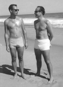 Early black and white photo of Dr. Henry D. Messer (right) and partner Carl House (left) on the beach. Photo and rights donated to Equality Michigan by the Henry D. Messer estate in 2014.